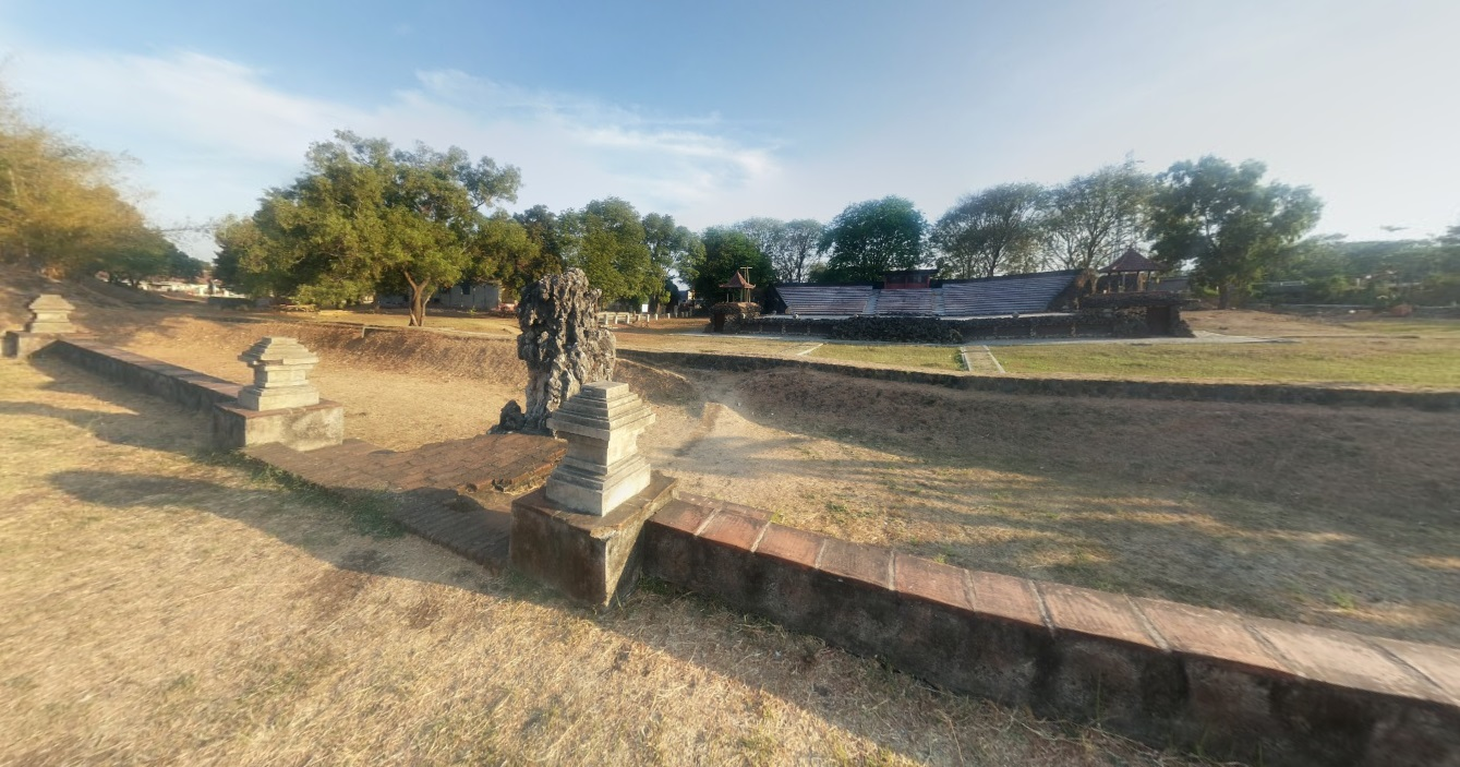 Sunyaragi Cave